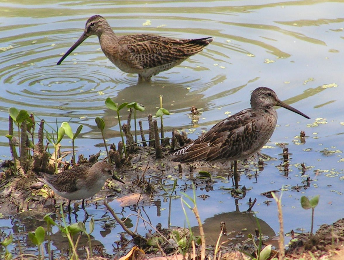 Two dowitchers Limnodromus sp., and a Semipalmated Sandpiper Calidris pusilla, photographed on Barbados